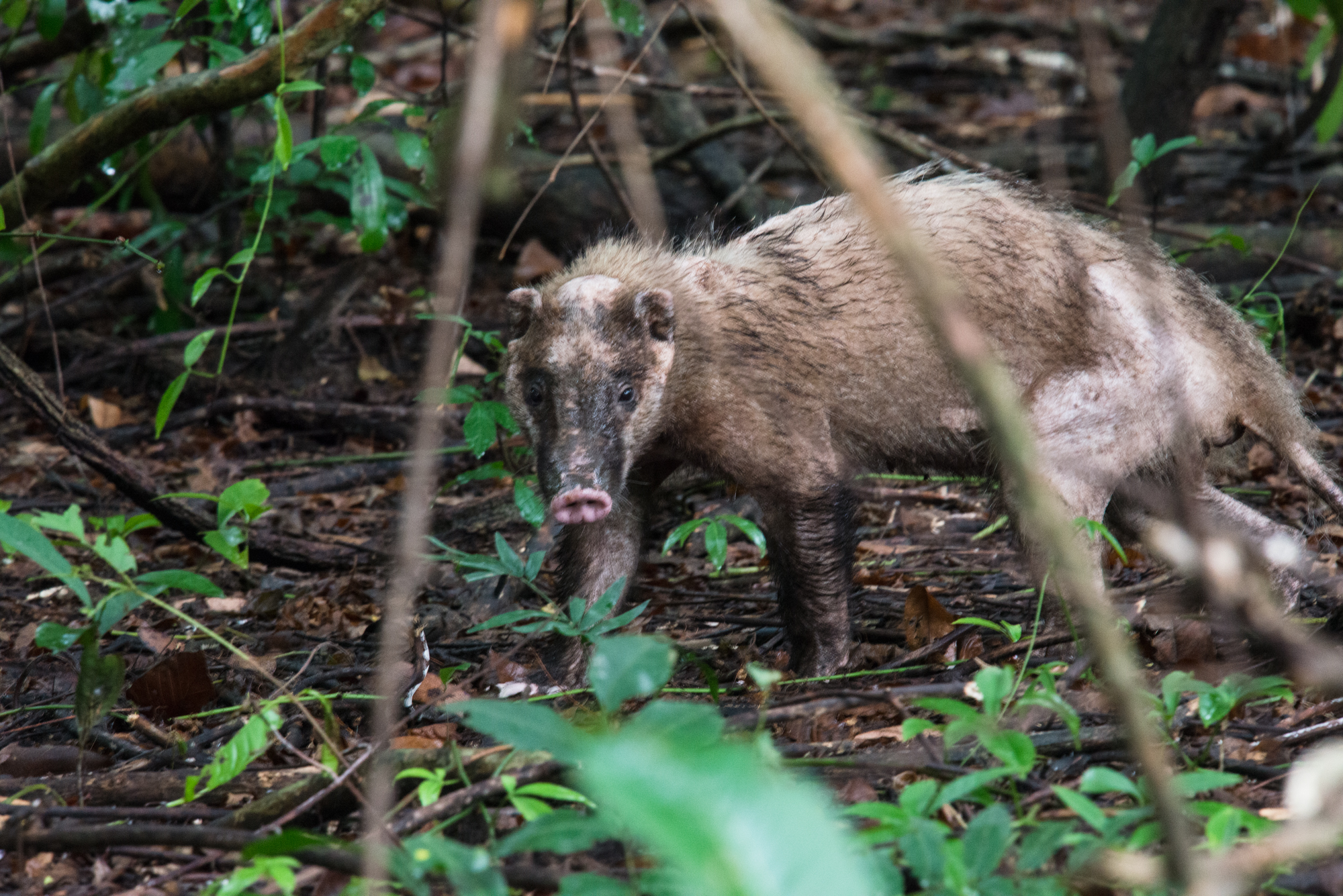 From Huai Kha Khaeng Wildlife Sanctuary, Thailand. Photo by Thai National Parks, Thailand.